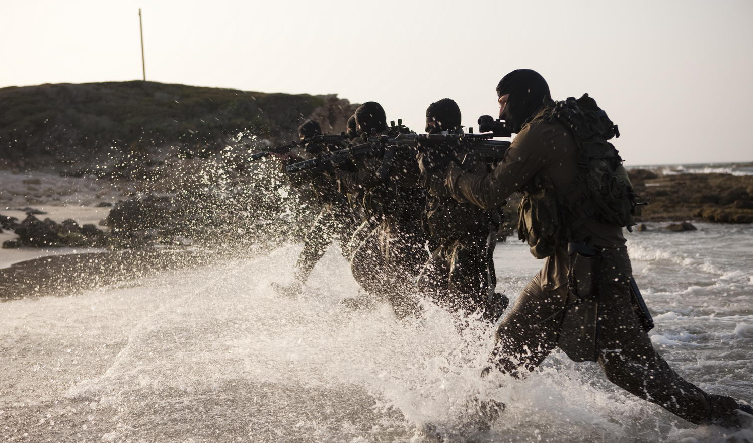 July 5, 2011 Shayetet 13, IDF's elite naval commando unit, received the award for exemplary brigade. An IDF Special Forces unit, Shayetet 13 engages in sea-to-land incursions, counter-terrorism, sabotage, maritime intelligence gathering, and maritime hostage rescue. Having participated in all Israel's major wars and countless operations the unit is highly secretive. Photo by Ziv Koren, an Israeli photojournalist. Featured as photo of the day on December 19, 2011. The Israel Defense Forces Facebook page The Israel Defense Forces blog Follow us on Twitter